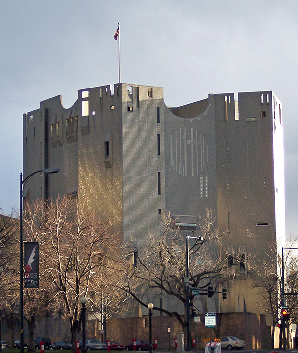 Picture of the Denver Art Museum by User:Tijuana Brass. PD.